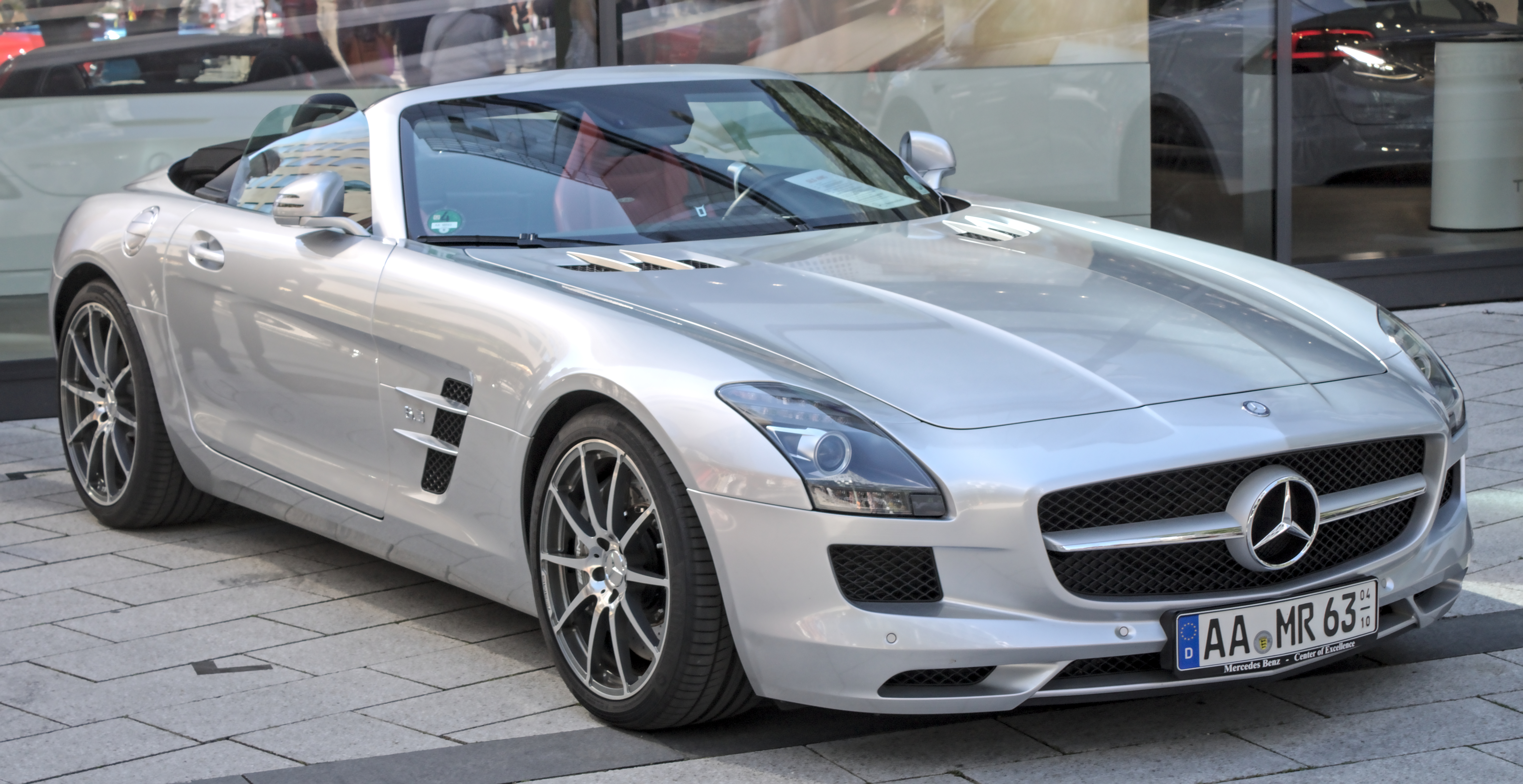 Mercedes-Benz_R197 in Stuttgart